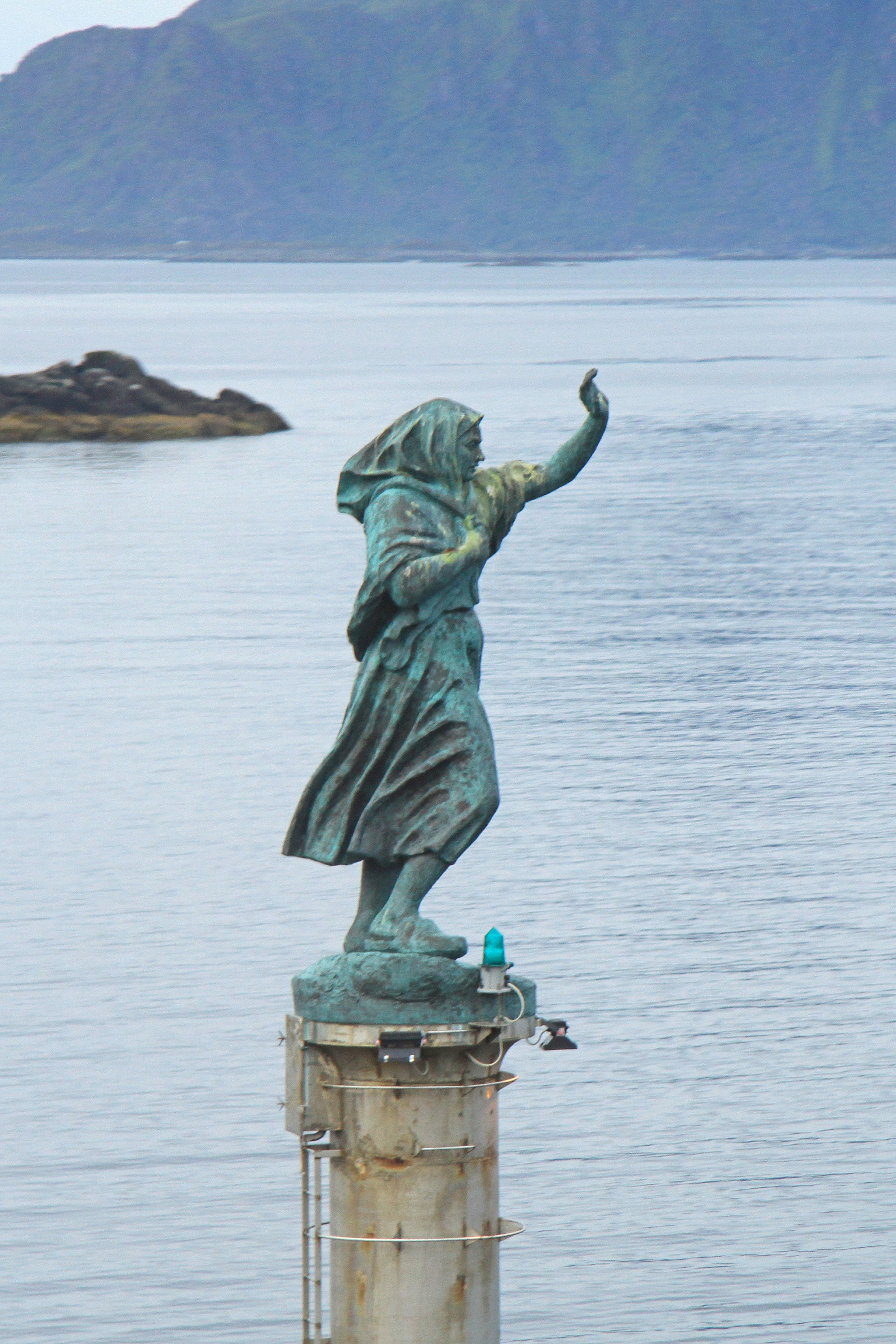 Statue at the entrance to the harbour of Svolvaer, Norway